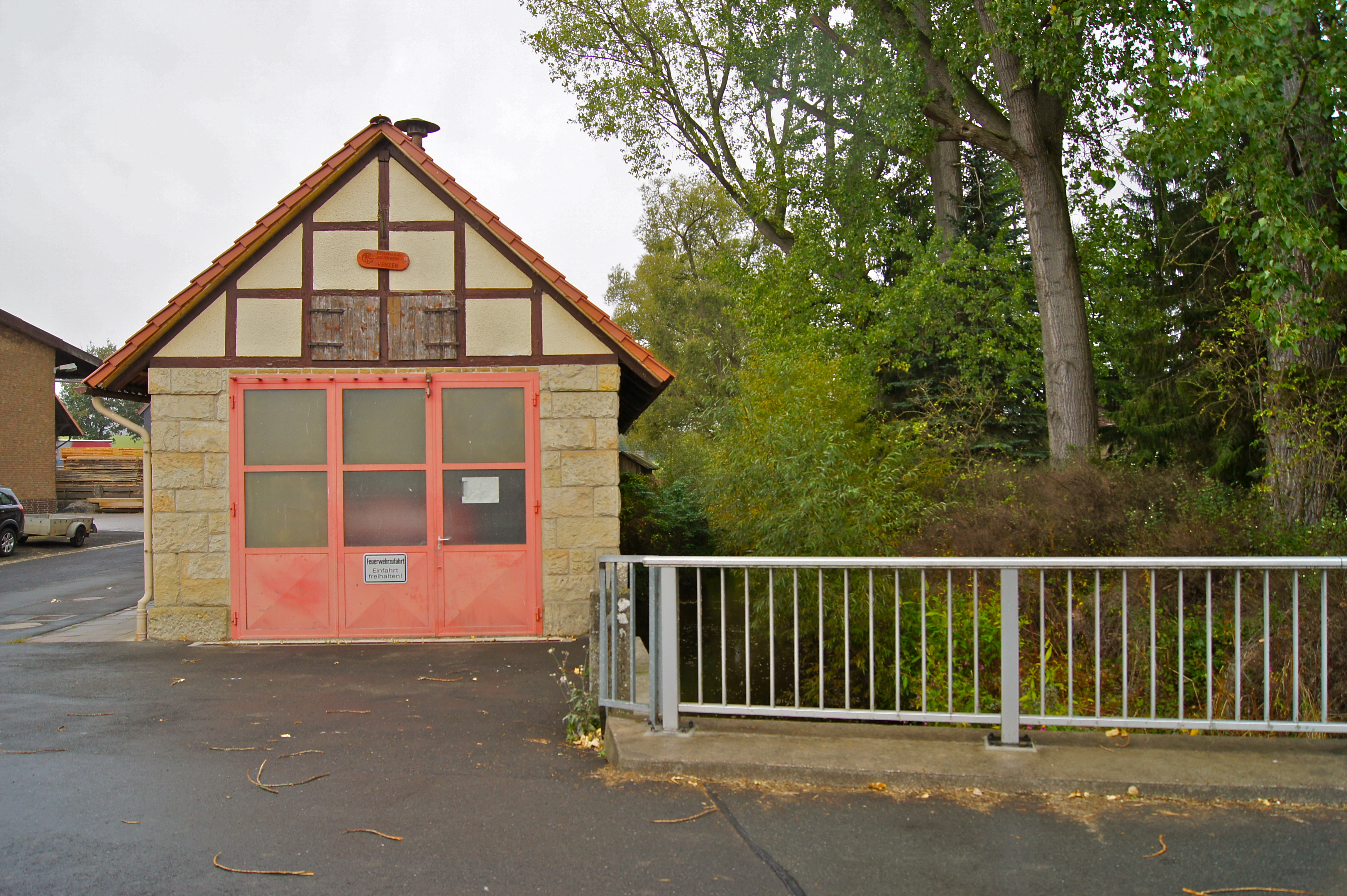 Einbeck (Wenzen), Germany: Fire Station